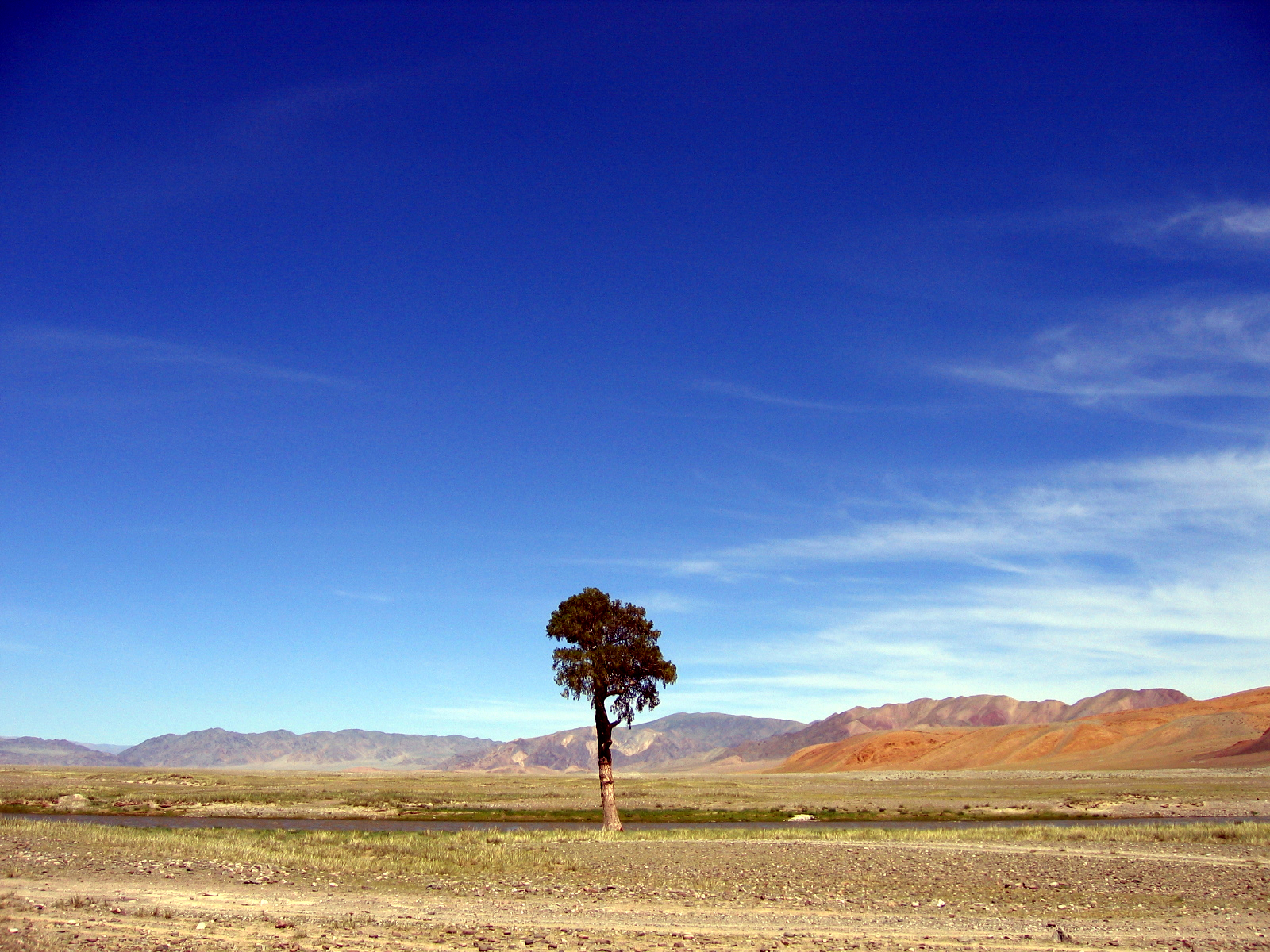 A lone tree in a wide valley in Western Mongolia.